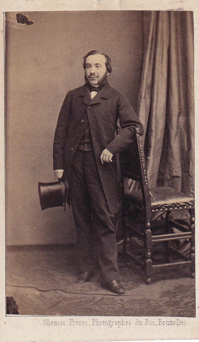 Ernest Jean-Louis Van Dievoet